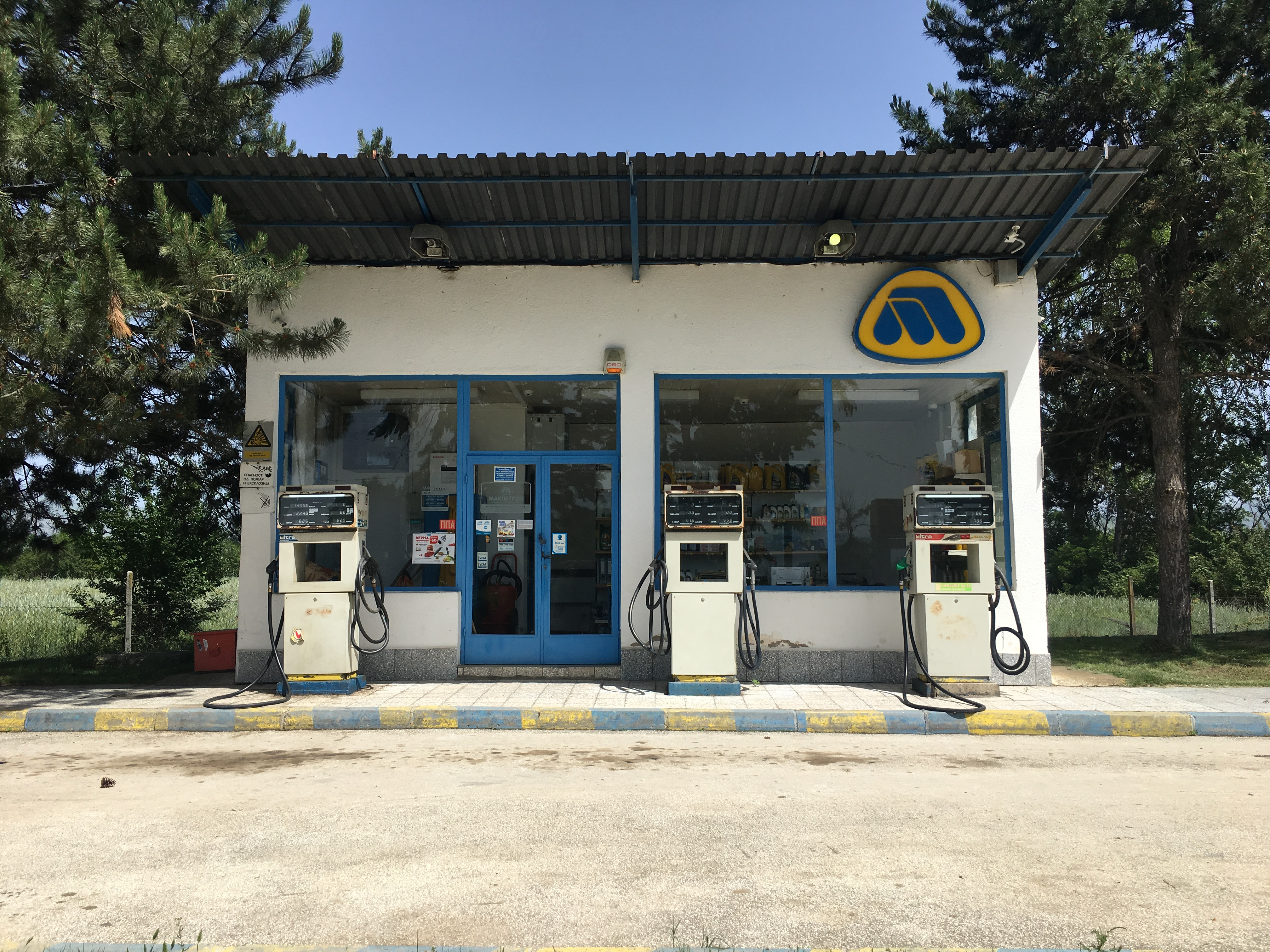 A petrol station in the village of Dobruševo